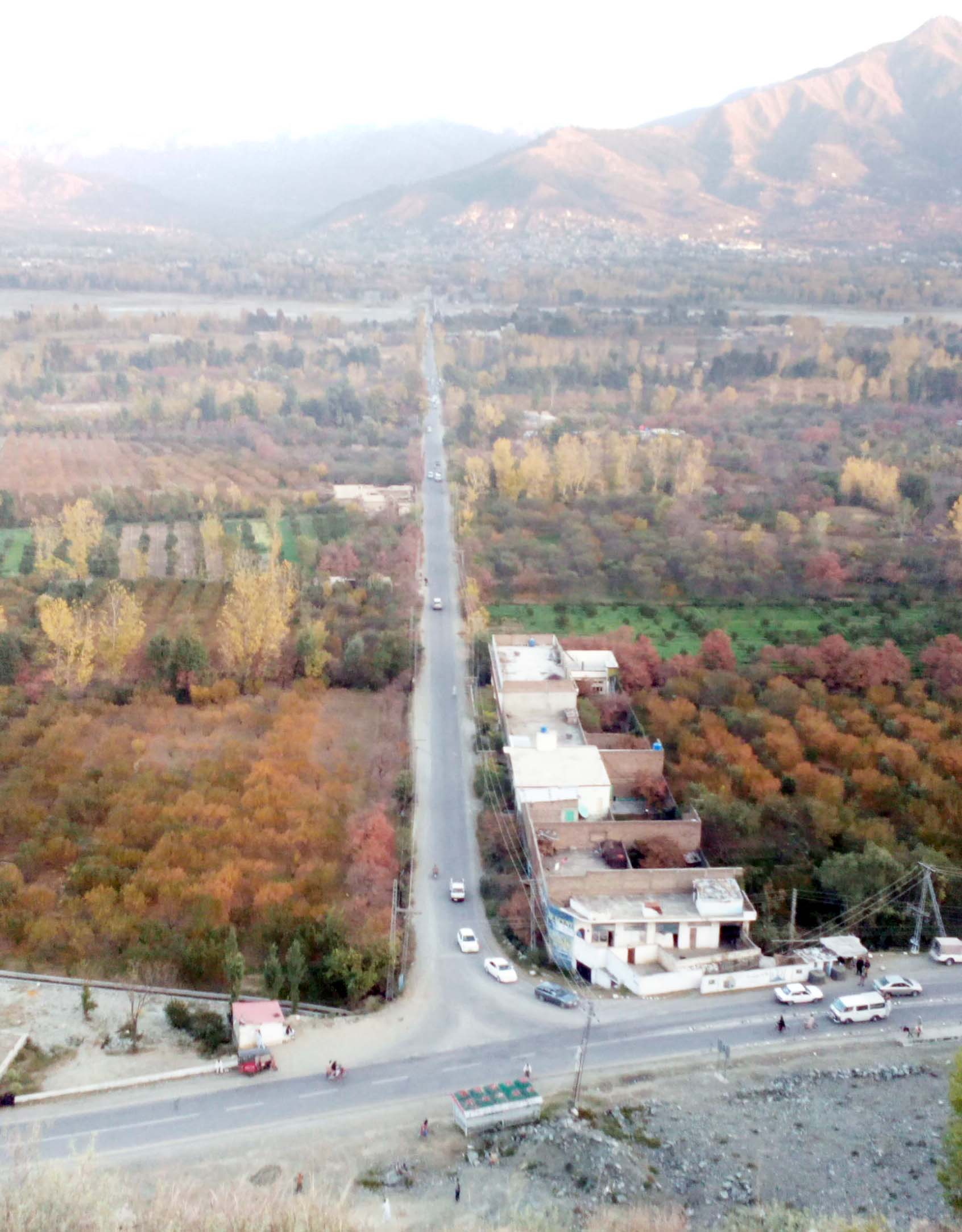 Autumn view of plains of Swat Valley(Baidara, Karimabad Chowk).